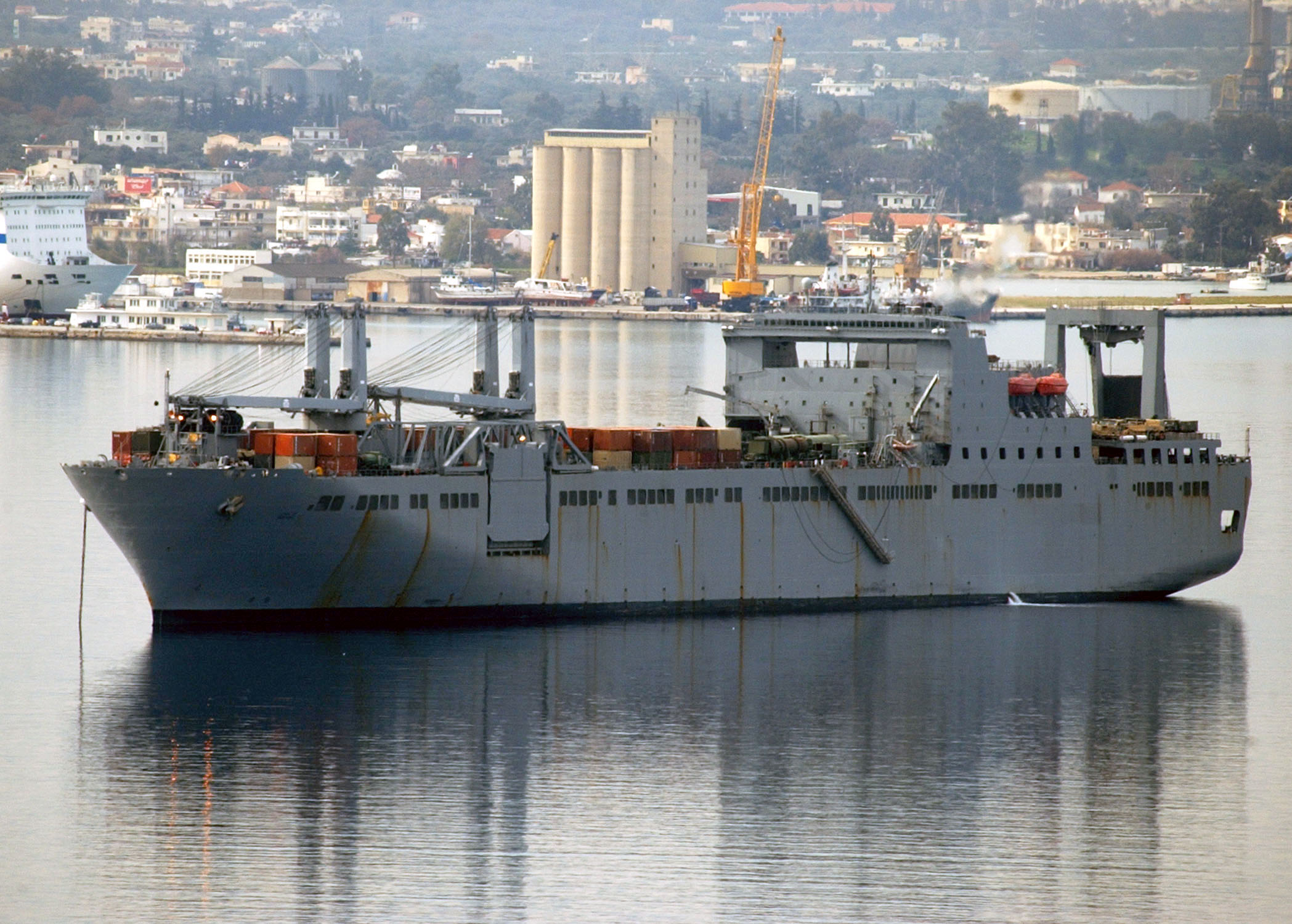 040120-N-0780F-015 Souda Bay, Crete, Greece (Jan. 20, 2004) -- The Military Sealift Command (MSC) large, medium-speed roll-on/roll-off ship USNS Bob Hope (T-AKR 300) sits at anchorage in Souda harbor during a brief port visit. The 950-foot vessel is named for legendary American entertainer Bob Hope, who tirelessly worked with the United Service Organization (USO) to raise the morale of U.S. troops around the world for more than 50 years.